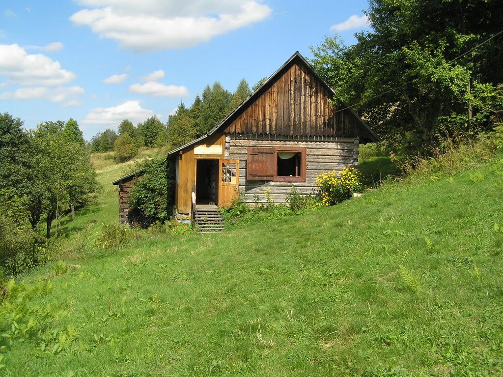 Cottage on Zagroń